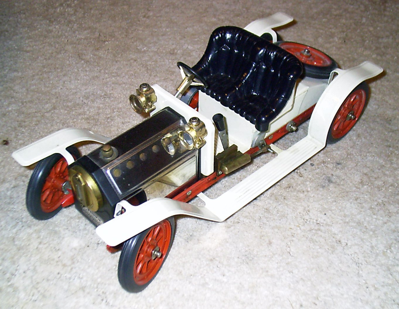 Mamod SA1 roadster steam engine